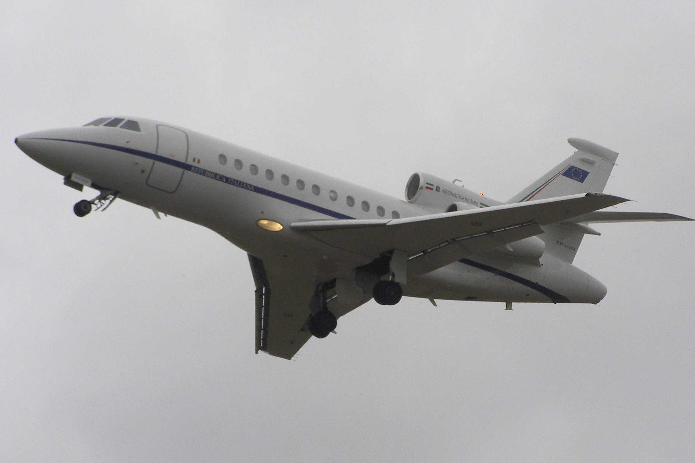 Dassault Falcon 900EX serial number MM62244 of the Italian Air Force at Farnborough England.